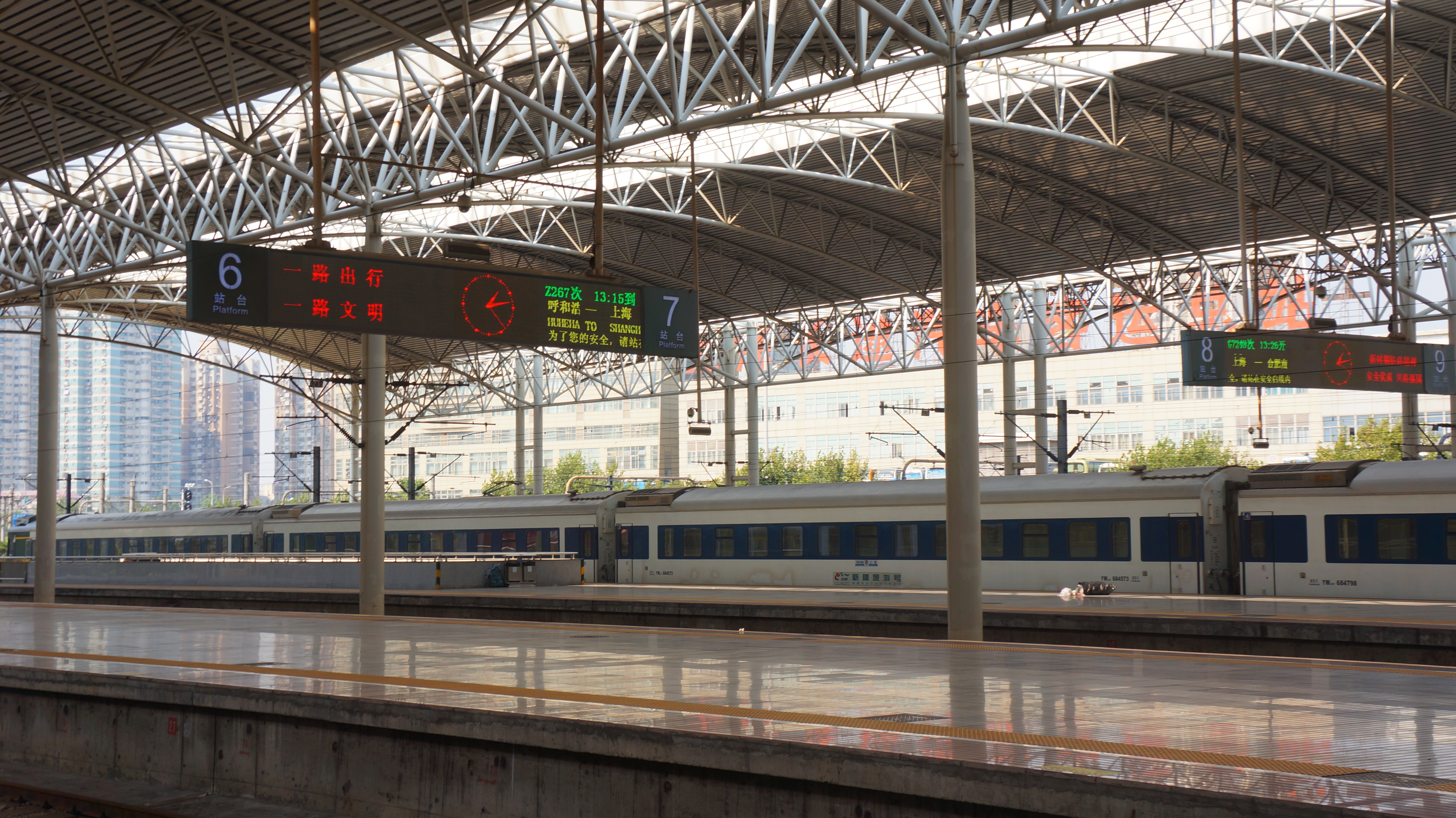 201510 Z39 at SHA